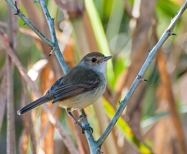 A Tawny-crowned Pygmy Tyrant in Piraju, São Paulo, Brazil.